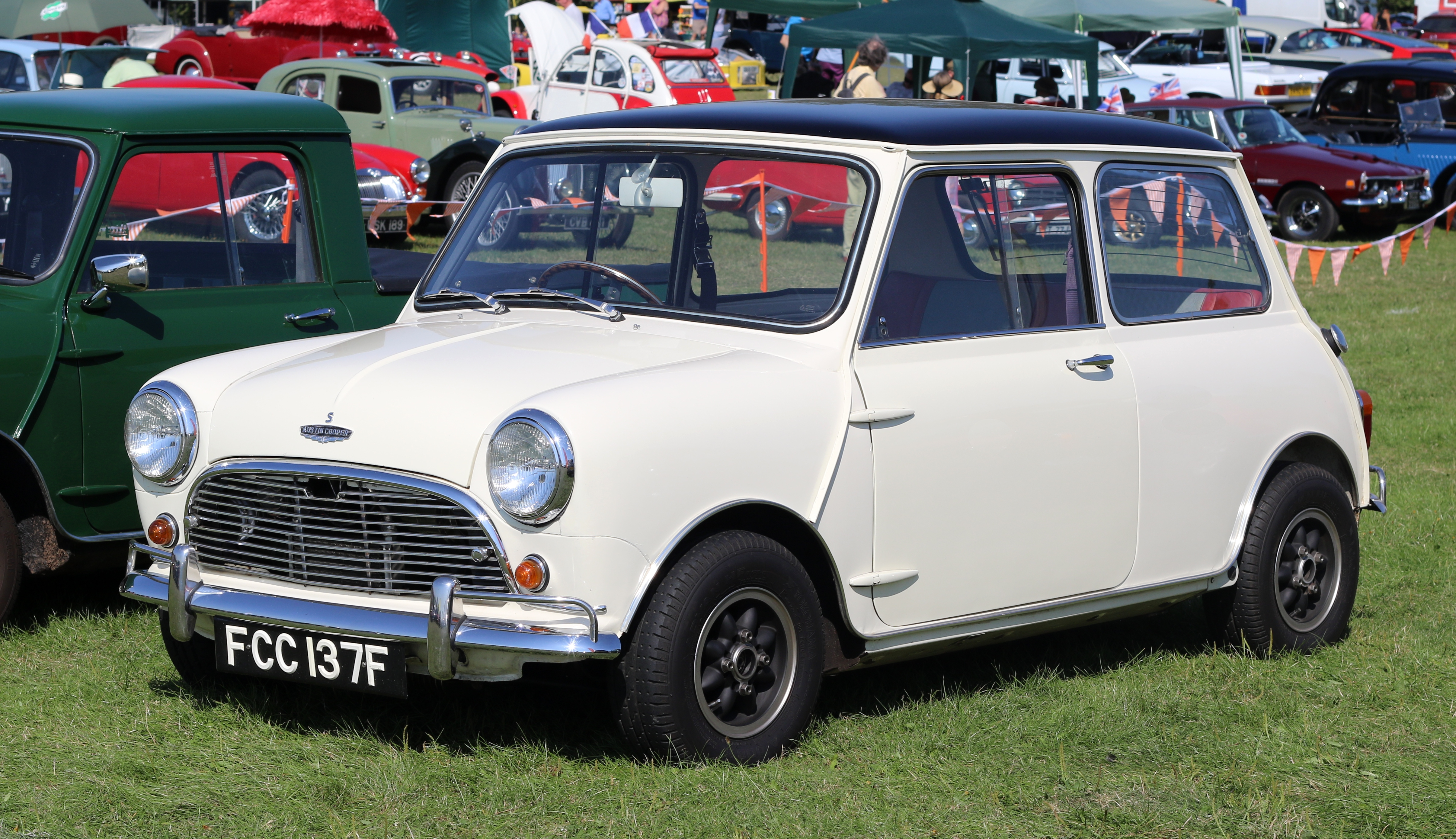 Austin Cooper 1275cc registered January 1968